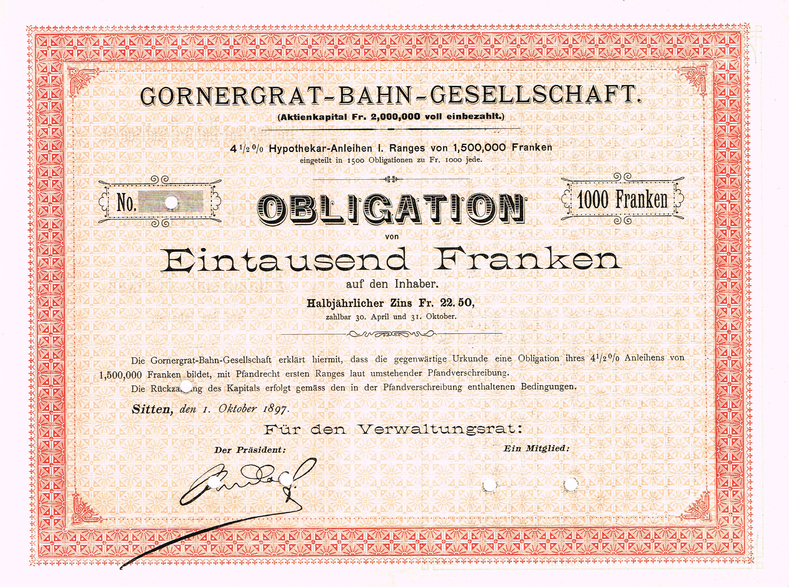 Bond of the Gernergrat-Bahn company, issued 1. October 1897